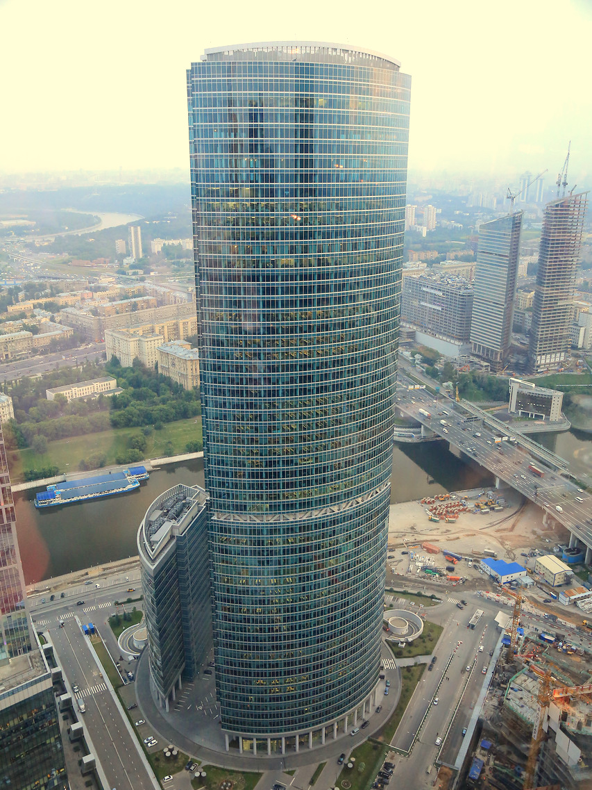 Naberezhnaya Tower